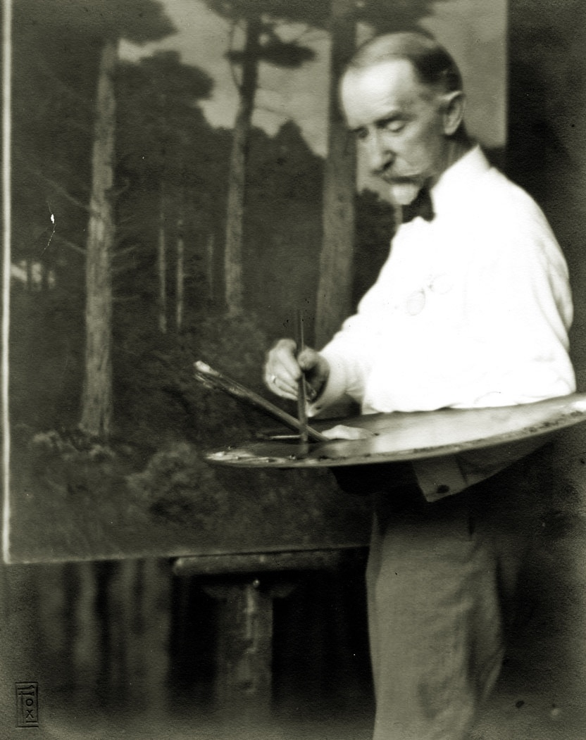 Charles Warren Eaton